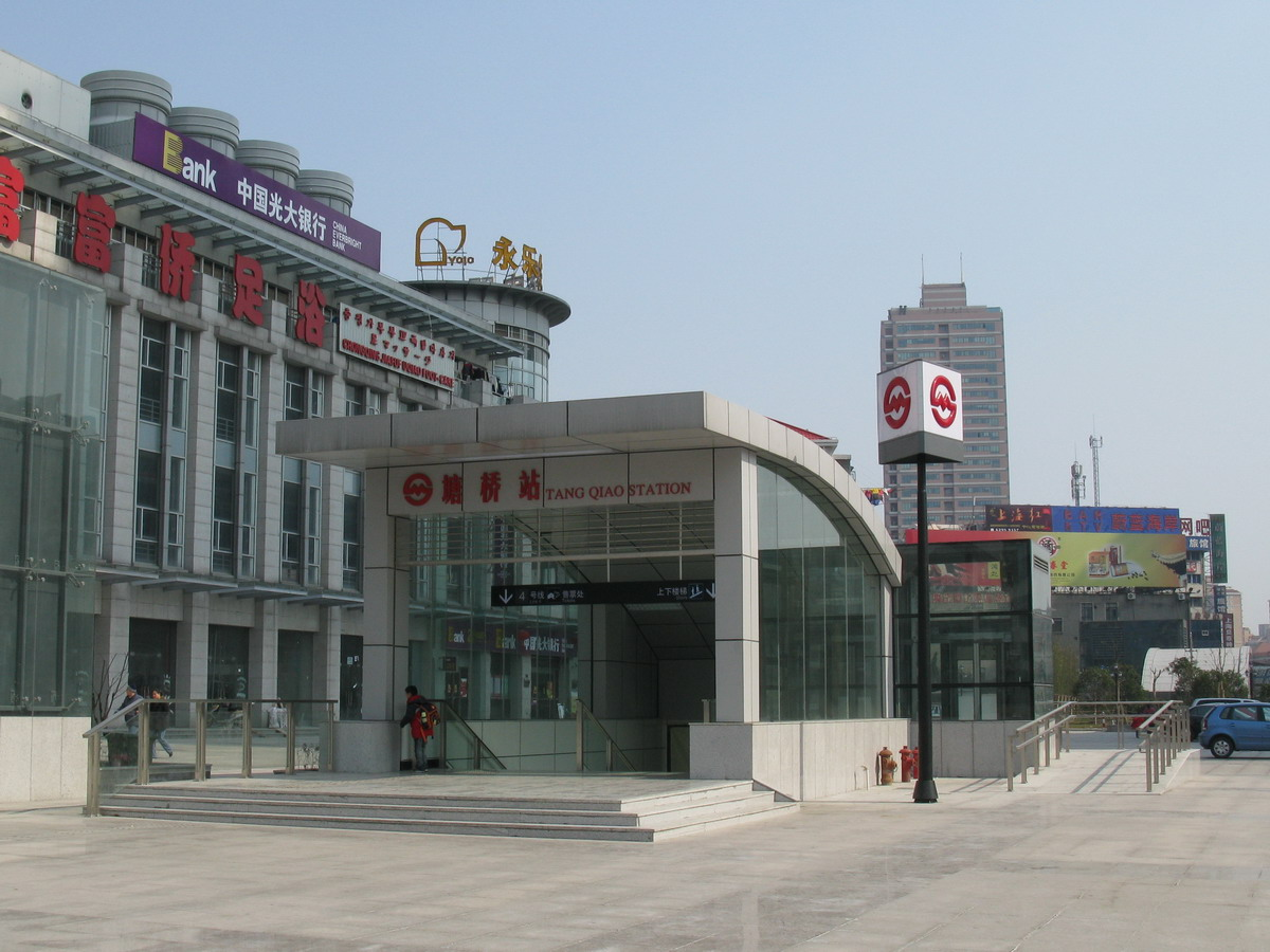 塘桥站 4号口 Tangqiao Station, Exit No.4